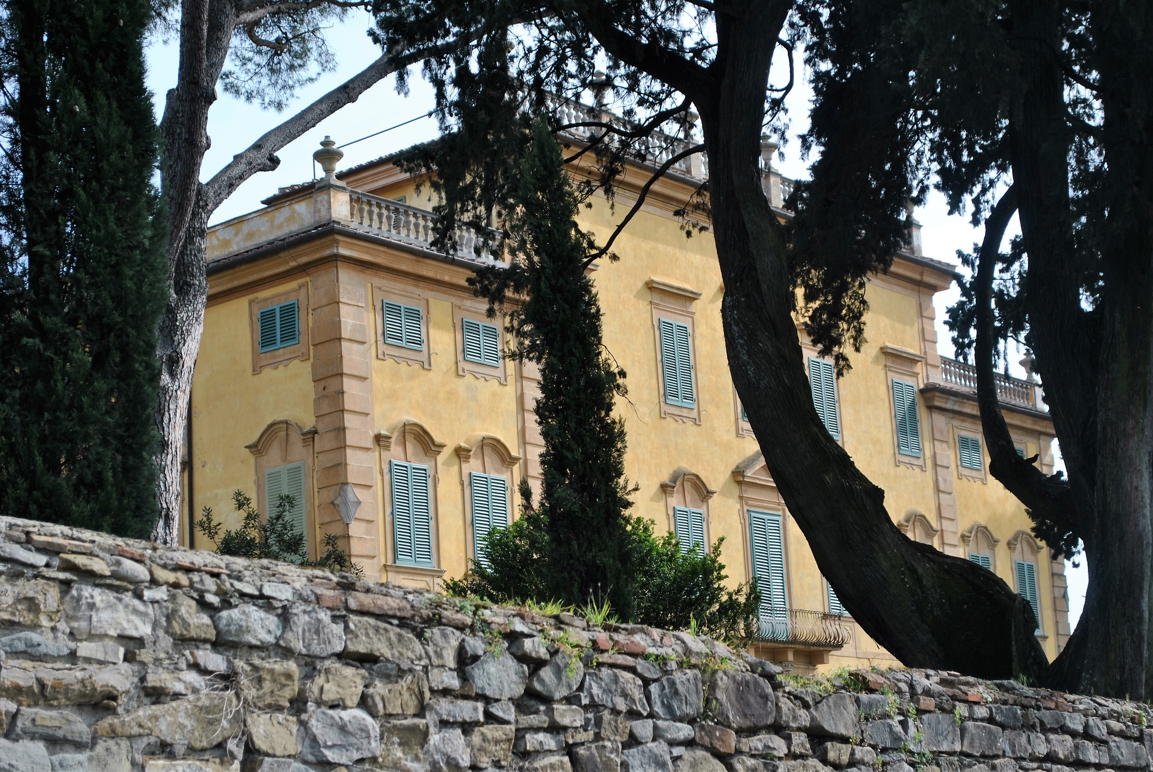 Image originally published in Queer Places: Retracing the Steps of LGBTQ people around the World Authored by Elisa Rolle